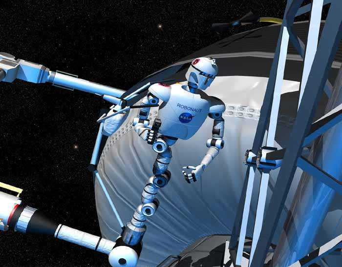 Visualization of the NASA "Robonaut" working on the International Space Station